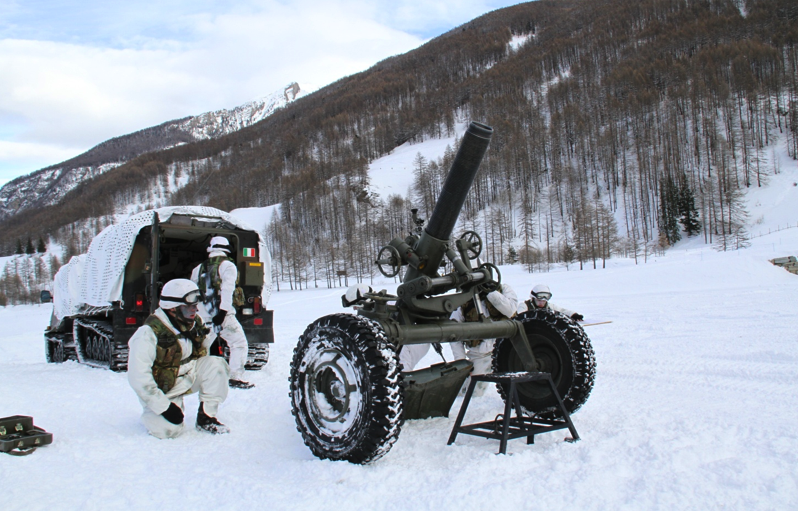 Italian Army Alpini of the 106th Mortar Company, Saluzzo Battalion, 2nd Alpini Regiment with a 120mm mortar during a training exercise